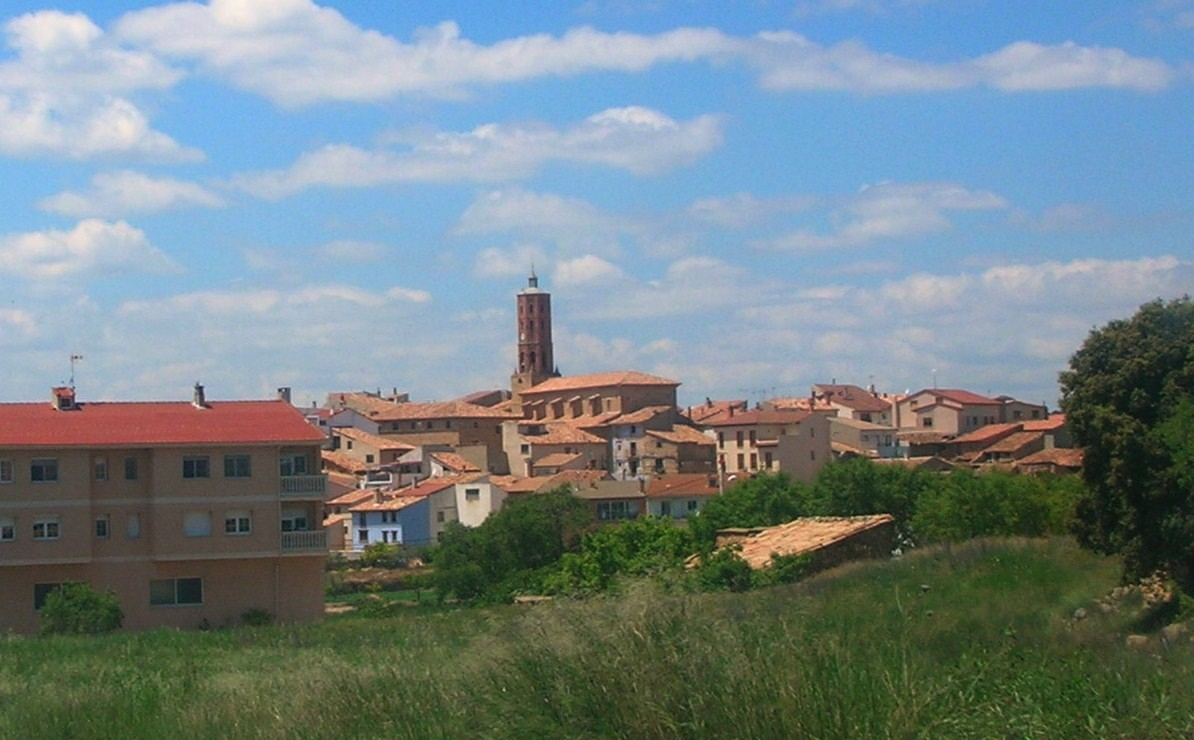 View of La Mata de los Olmos